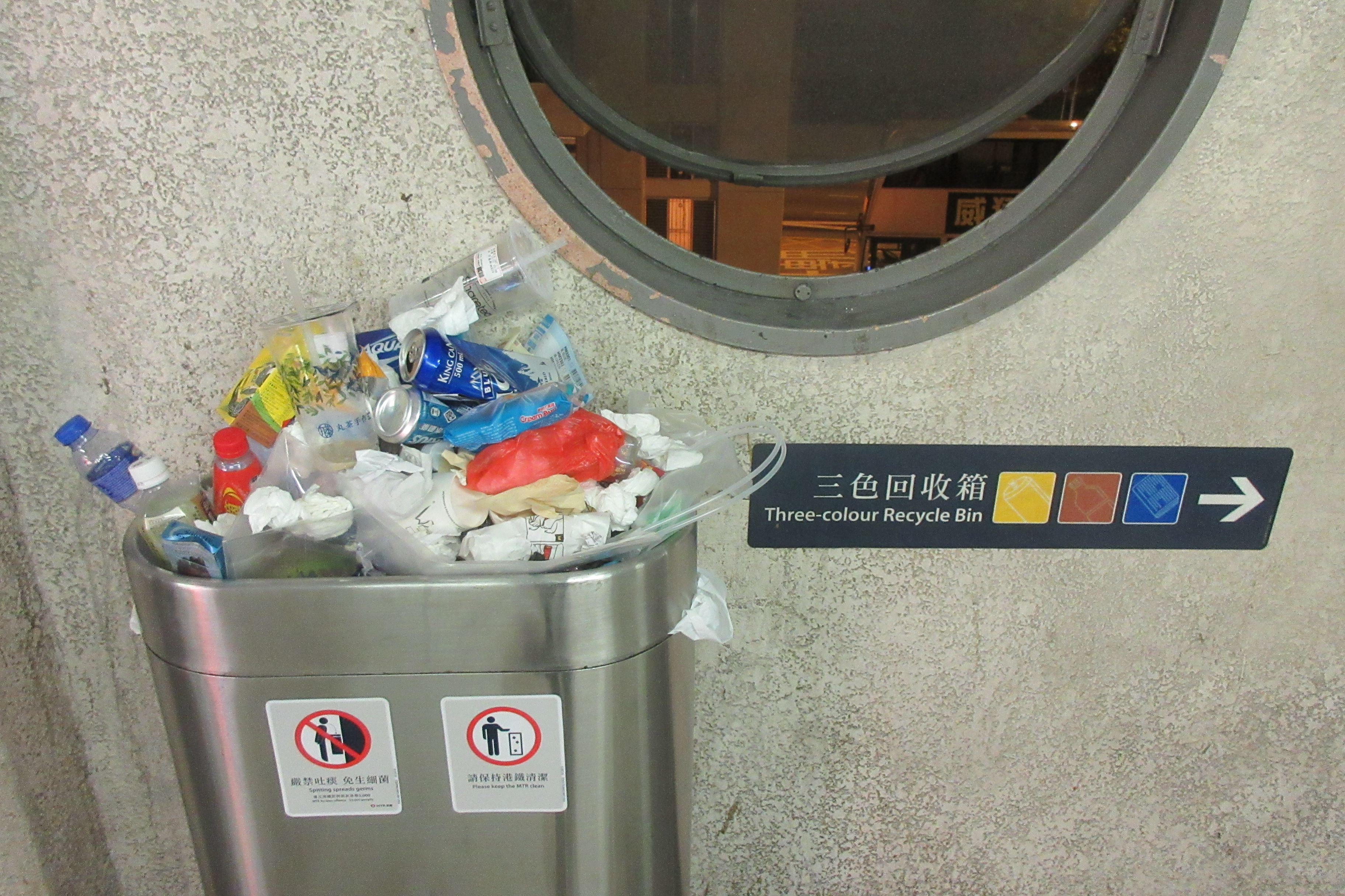 HK Waste sorting in October 2018